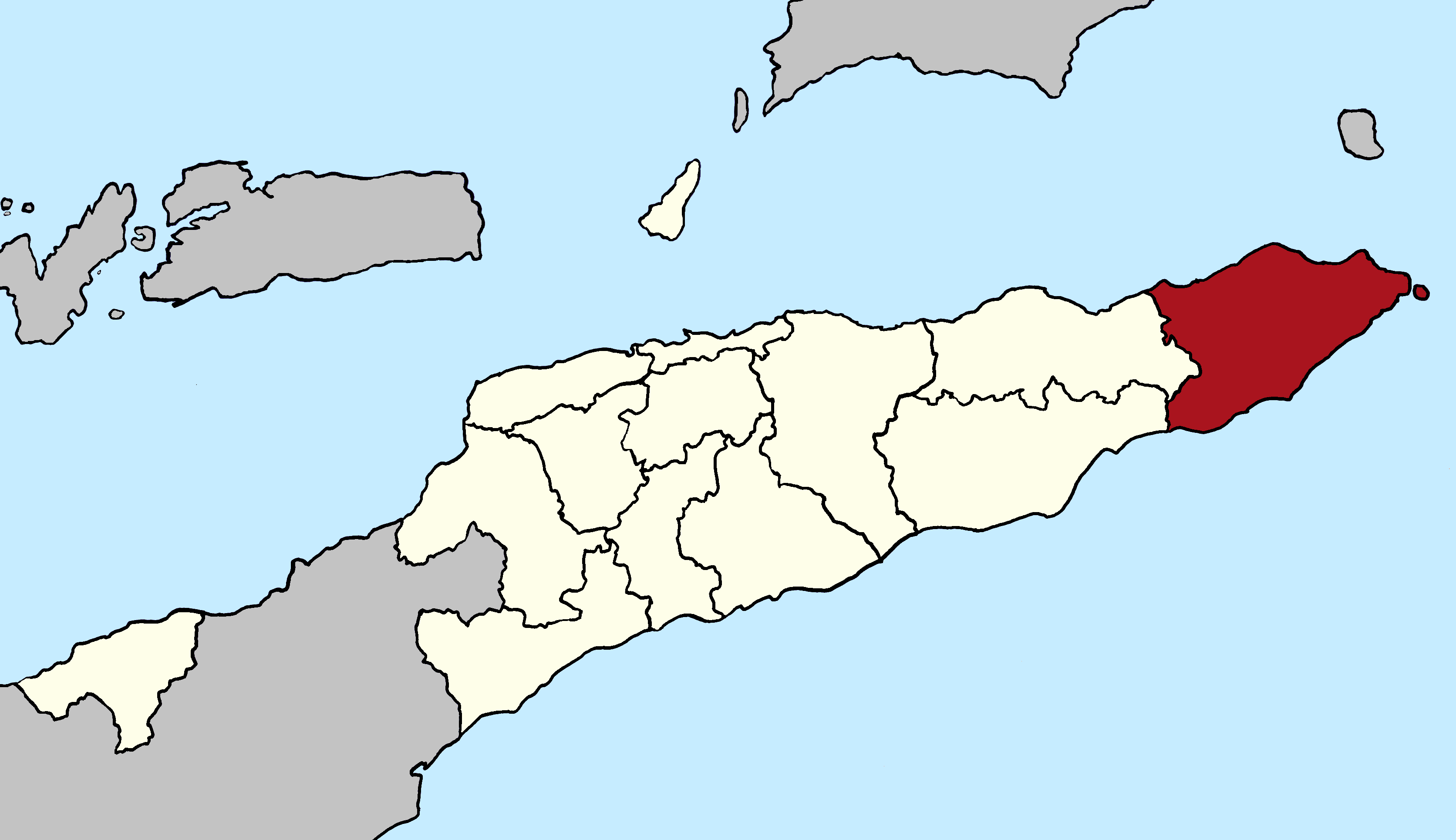 Locator map of Lautém municipality since 2015, East Timor